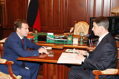 THE KREMLIN, MOSCOW. With Minister of Culture Alexander Avdeyev.